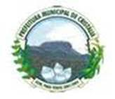 Coat of arms of the city of Cristália, Minas Gerais, Brazil.